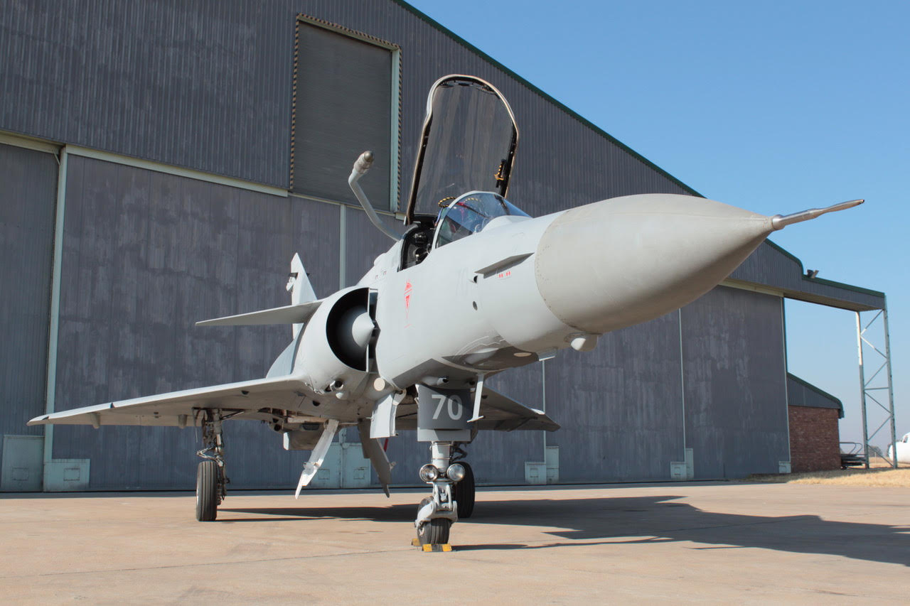 Draken International Aircraft. Photo by Erik Hildenbrandt.